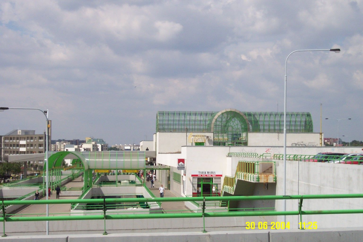 Černý Most metro station in Prague, Czech Republic.